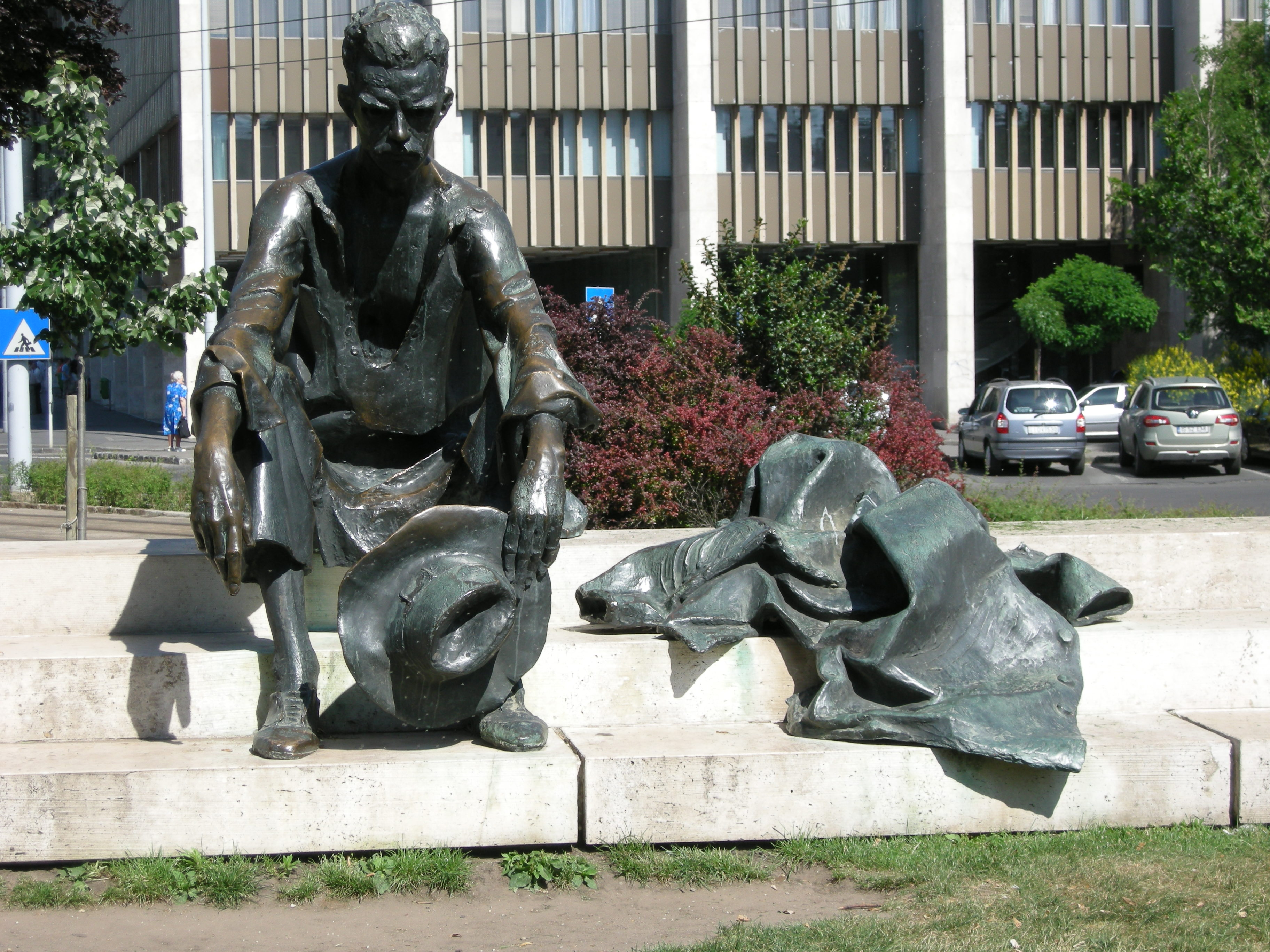 Attila József statue in Budapest